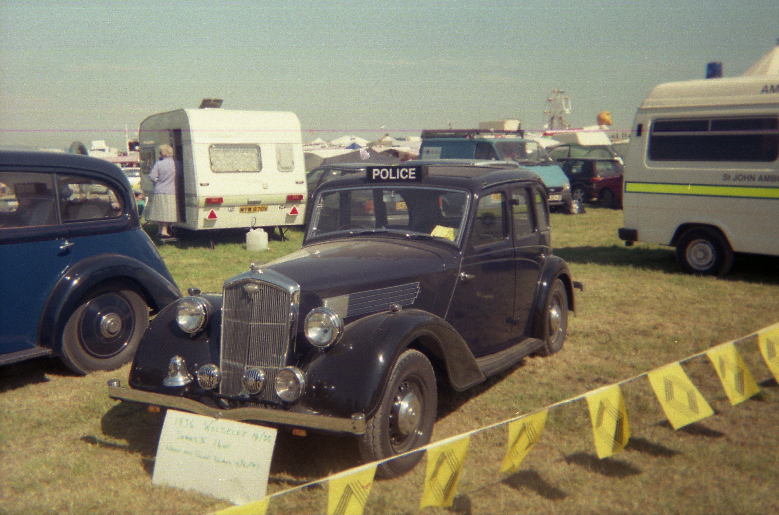 A nice example of a 1936 Series II Wolseley 14/56 1400cc saloon. Spotted at a Sussex Country Fair. Camera: 35mm throw-away.